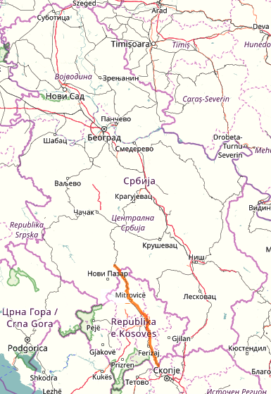 OpenStreetMap of State Road 31 in Serbia.